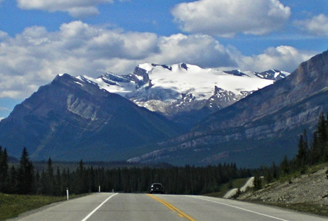 David Thompson Highway heading west toward Saskatchewan Crossing in Alberta